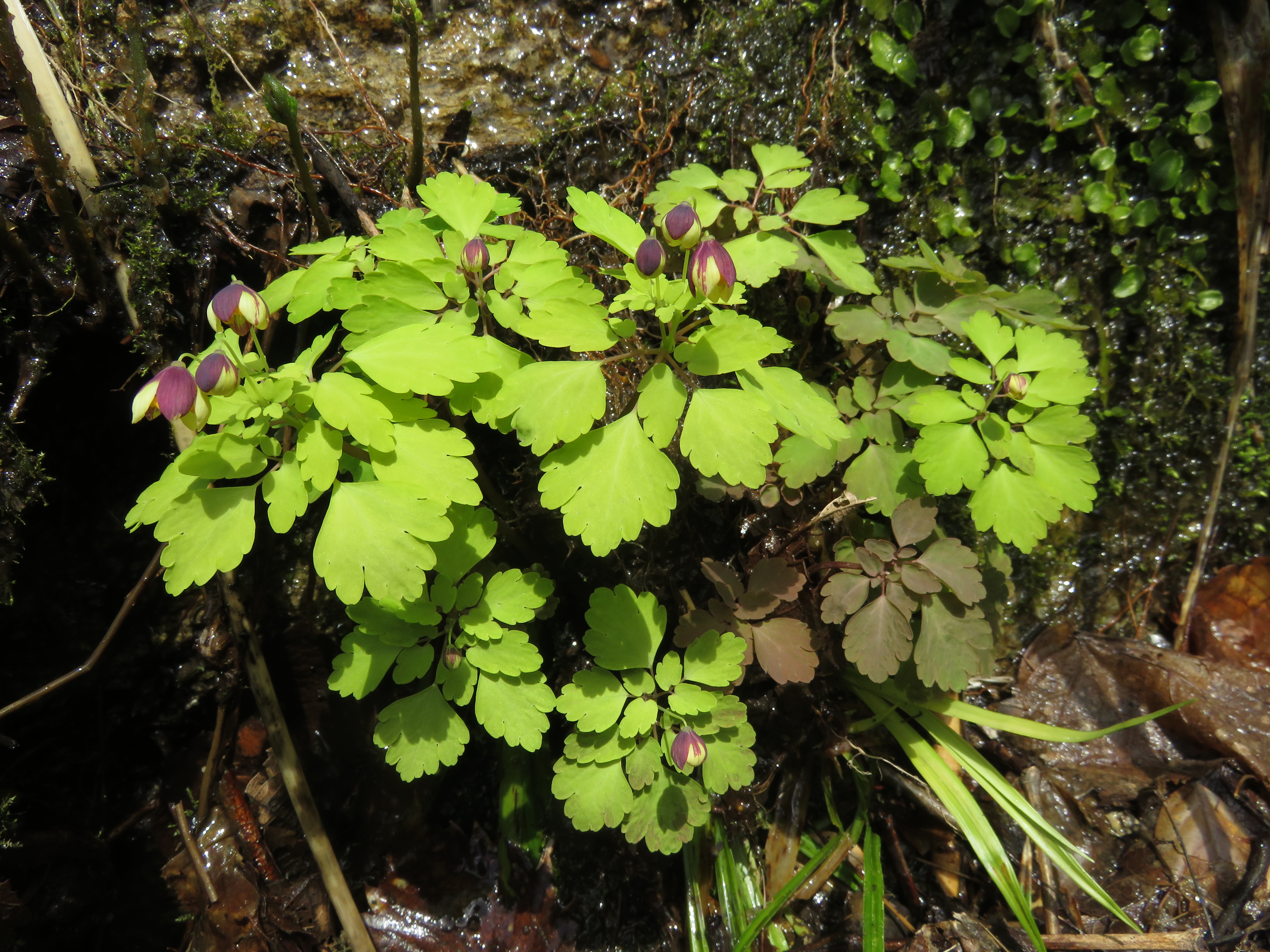 Dichocarpum nipponicum, Aizu area, Fukushima pref., Japan